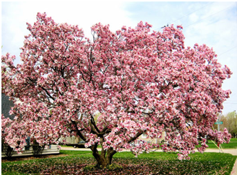 magnolia